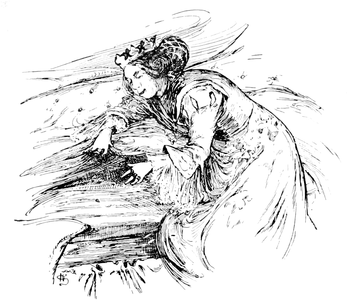 Illustration in a collection of Anderson's Fairy tales.